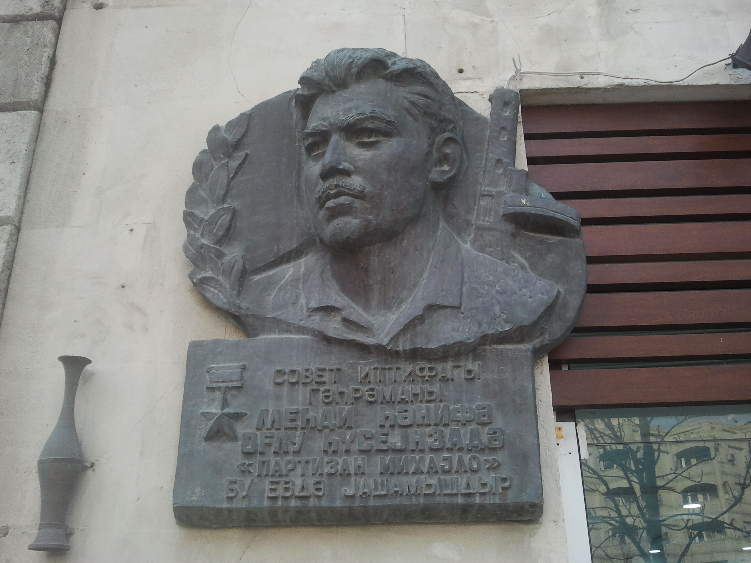 Plaque on building where hero of the Soviet Union Mehdi Huseynzade lived in Baku